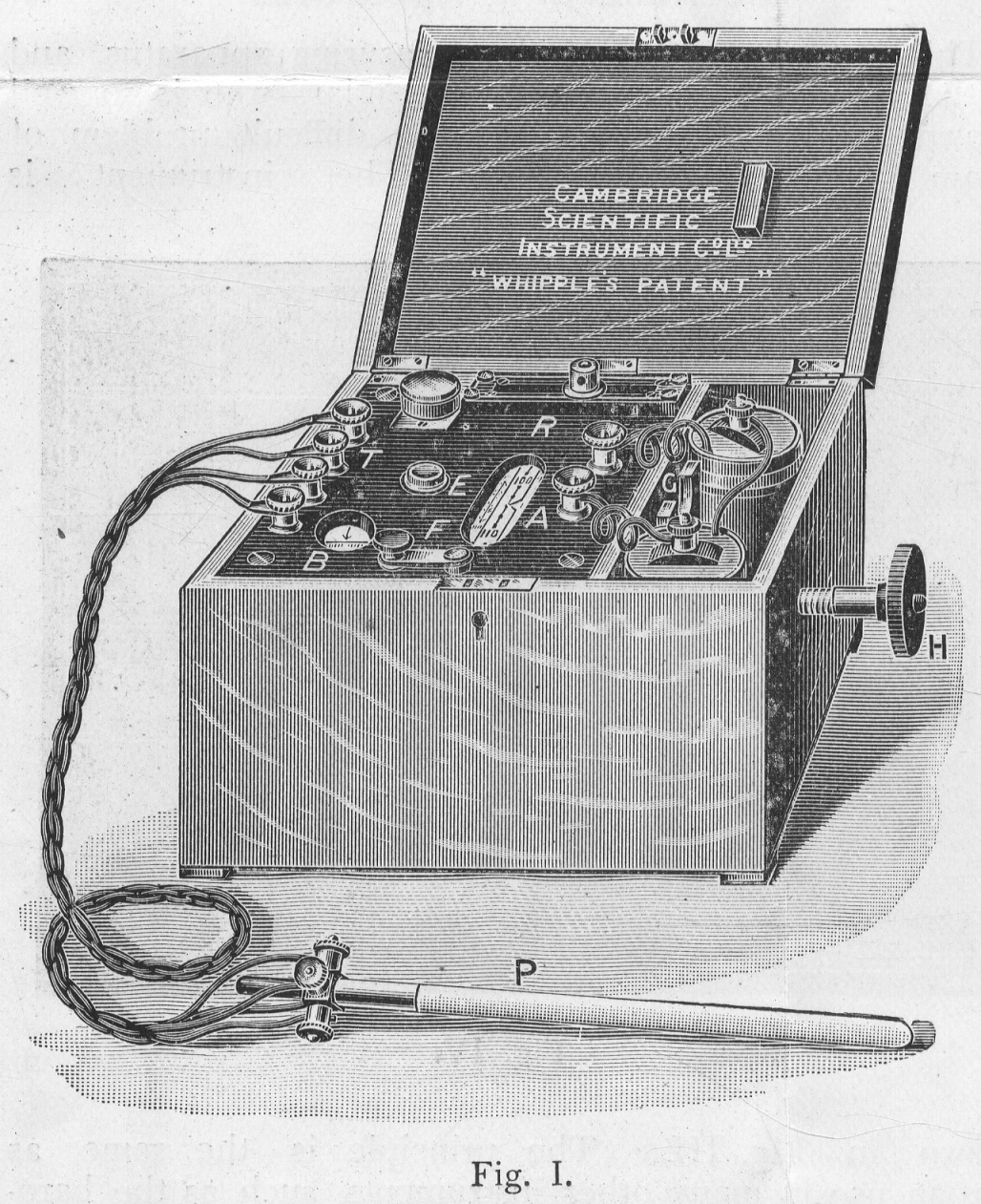 Resistance measuring instrument for temperature measurement.The original from which this has been scanned is in the North of England Institute of Mining and Mechanical Engineers. It is reference Tracts vol 10 p32. The scan and the upload to Wiki Commons have been made with the permission and direction of their librarian Jennifer Kelly.